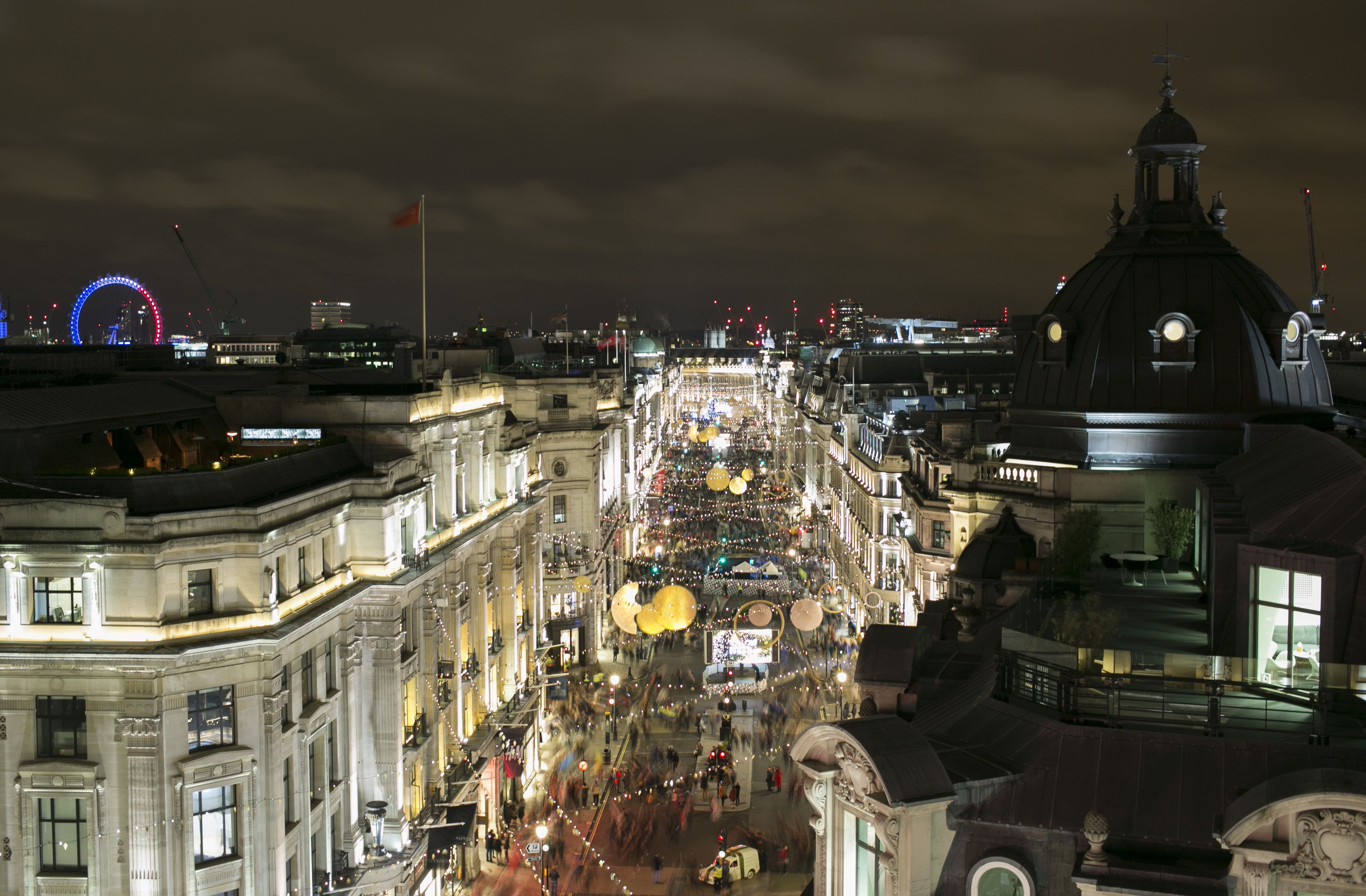 Regent Street Christmas Lights 2015, Timeless Elegance designed by ACT Lighting Design